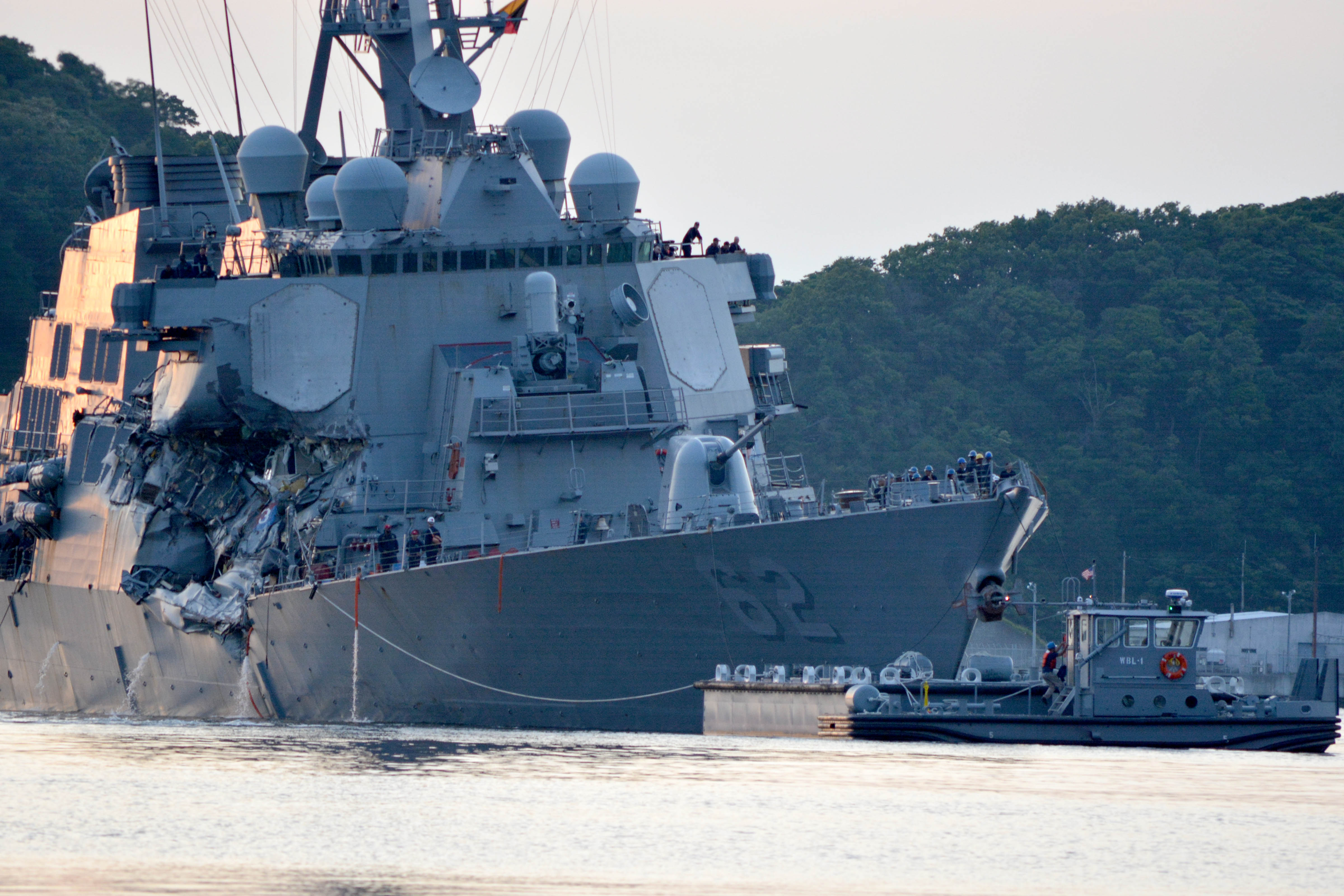 YOKOSUKA, Japan (June 17, 2017) The Arleigh Burke-class guided-missile destroyer USS Fitzgerald (DDG 62) returns to Fleet Activities (FLEACT) Yokosuka following a collision with a merchant vessel while operating southwest of Yokosuka, Japan. (U.S. Navy photo by Mass Communication Specialist 1st Class Peter Burghart/Released)